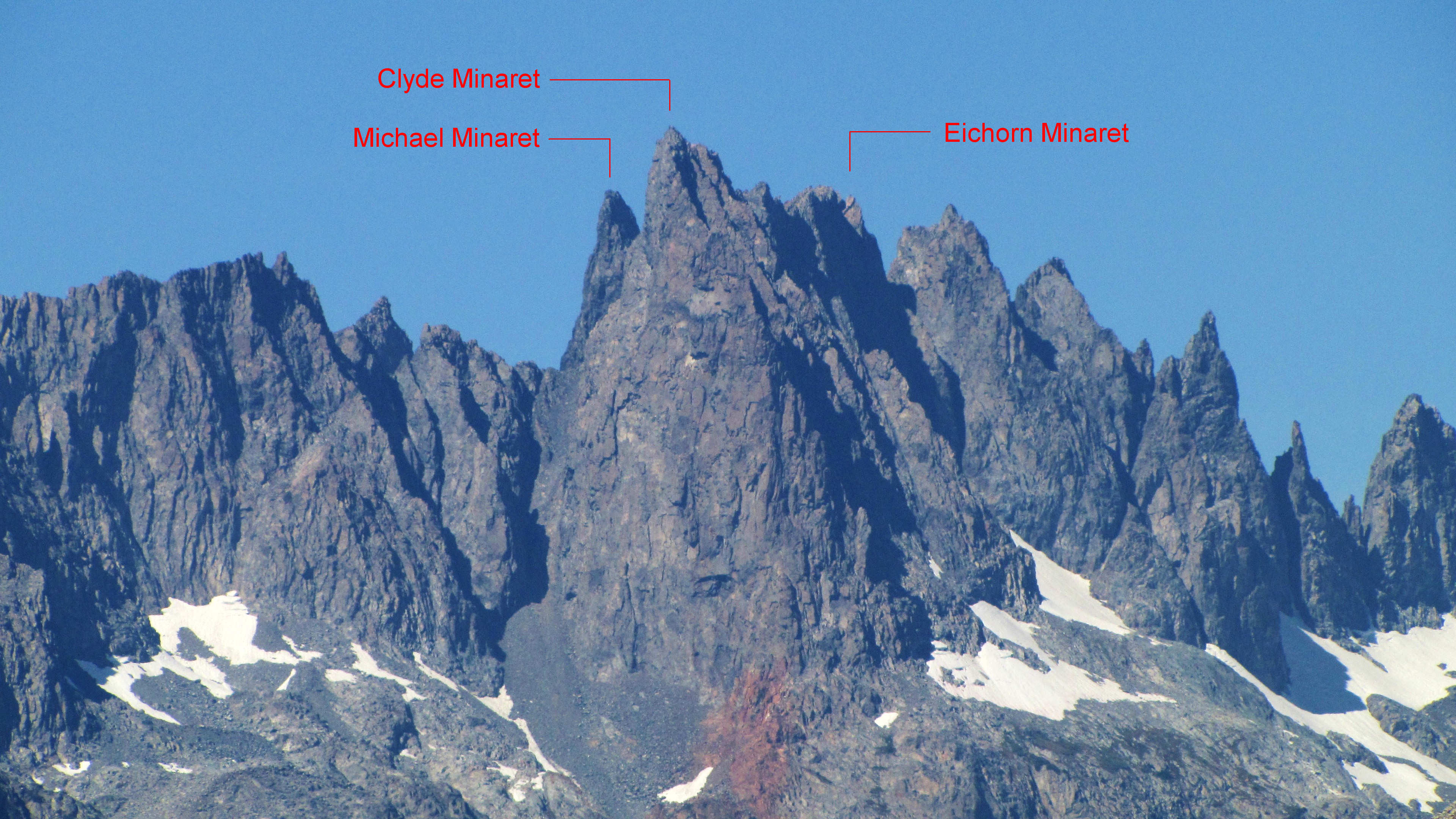 This image was taken at the Minarets observation site (Minaret Summit). Most of the Minarets (peaks) have been informally named. Clyde Minaret is the largest and tallest. Michael Minaret is where Norman Clyde found the body of Walter "Pete" Starr in 1933 and it is just to the left of Clyde Minaret. Eichorn Minaret is just to the right of Clyde Minaret. Jules Eichorn was Clyde's most frequent climbing companion.